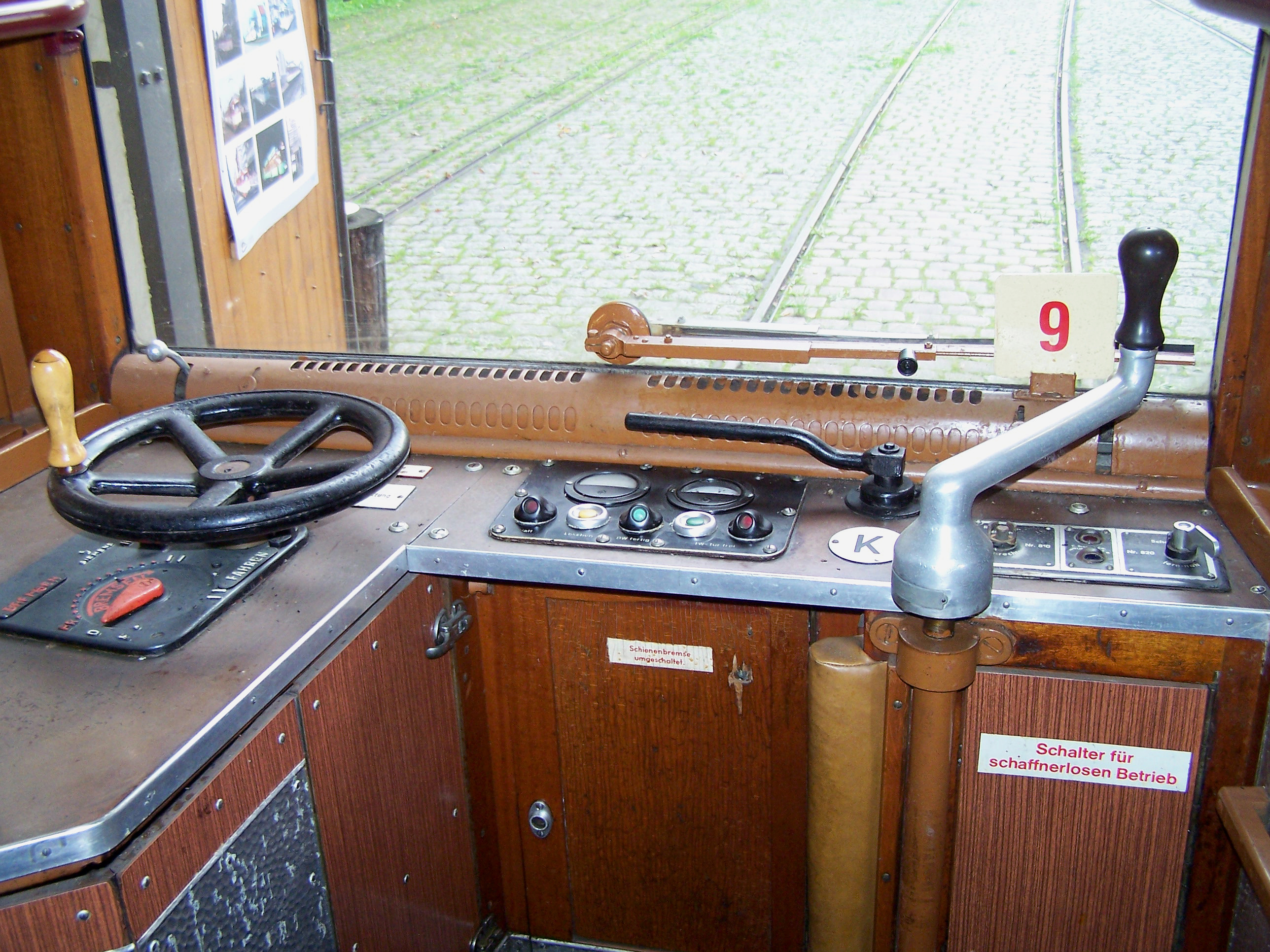 Tramway at Frankfurt am Main: Driver's cab of VGF type K railcar 104 in the Frankfurt on Main Transport Museum in Frankfurt am Main--Schwanheim